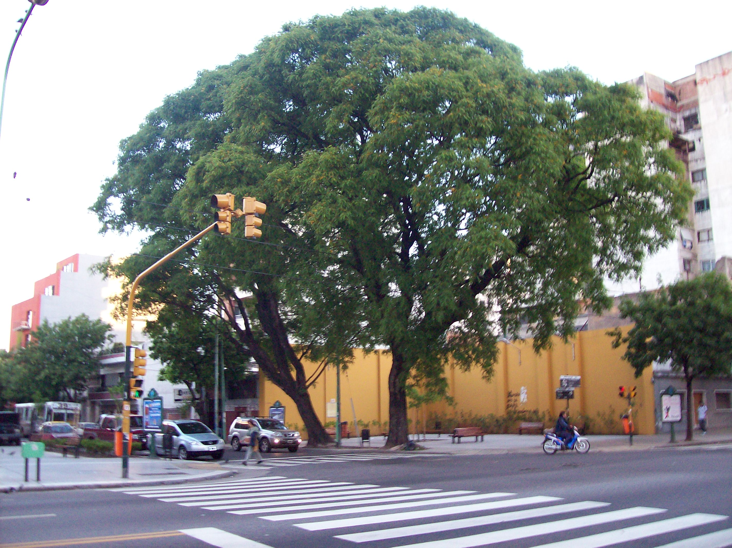 Federico Lacroze Avenue and Córdoba Street in Buenos Aires